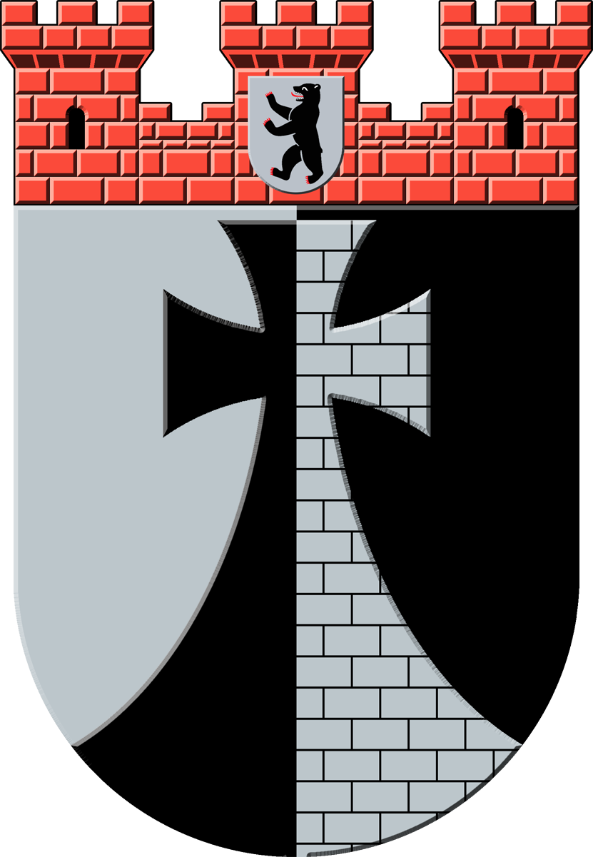 Coat of arms of Kreuzberg, a former Borough of Berlin